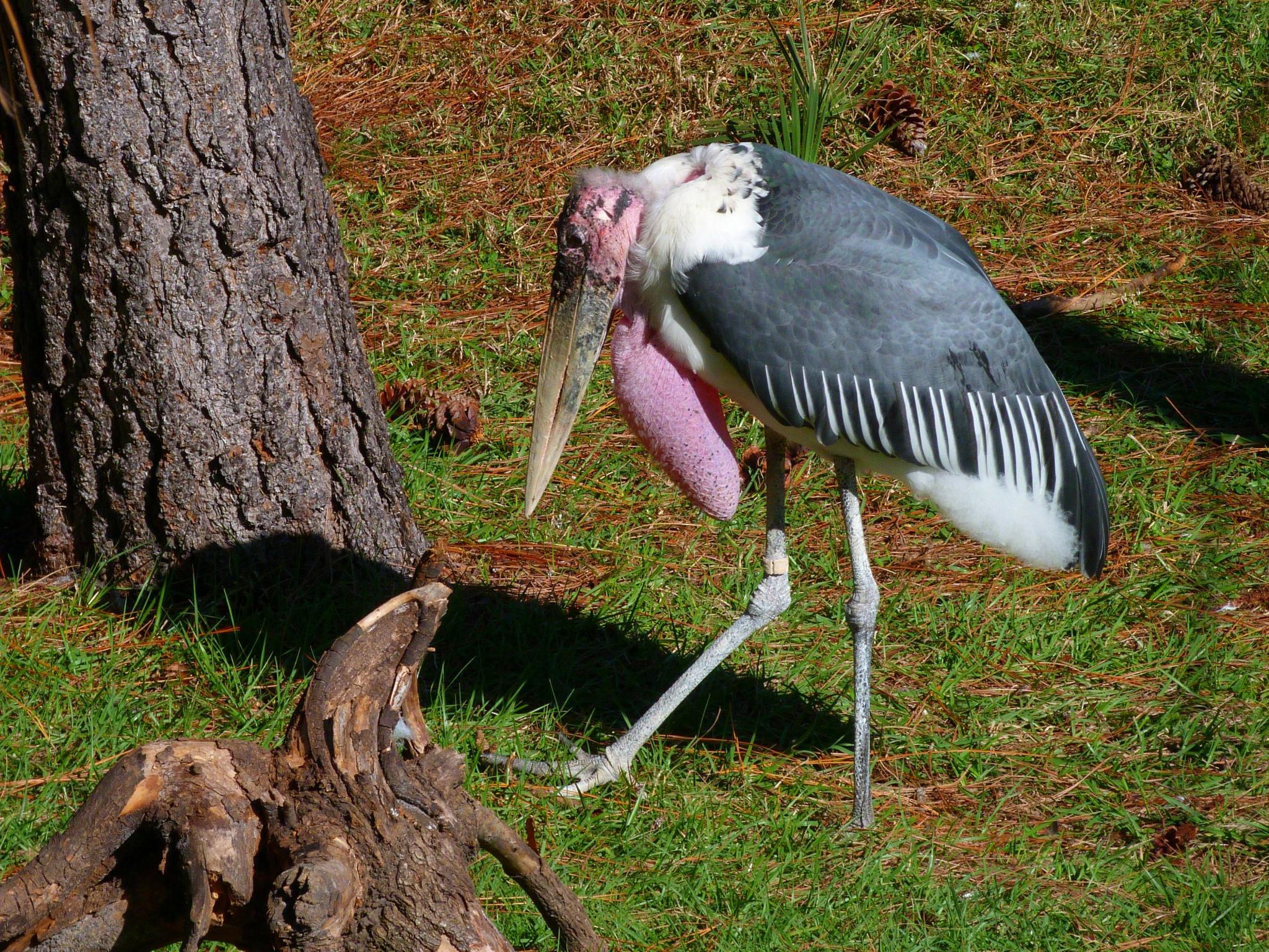 A Marabou Stork at Brevard Zoo, Florida, USA.